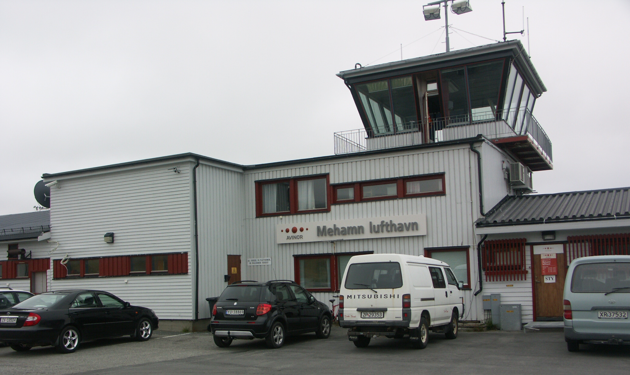 Mehamn Airport, Finnmark, Norway